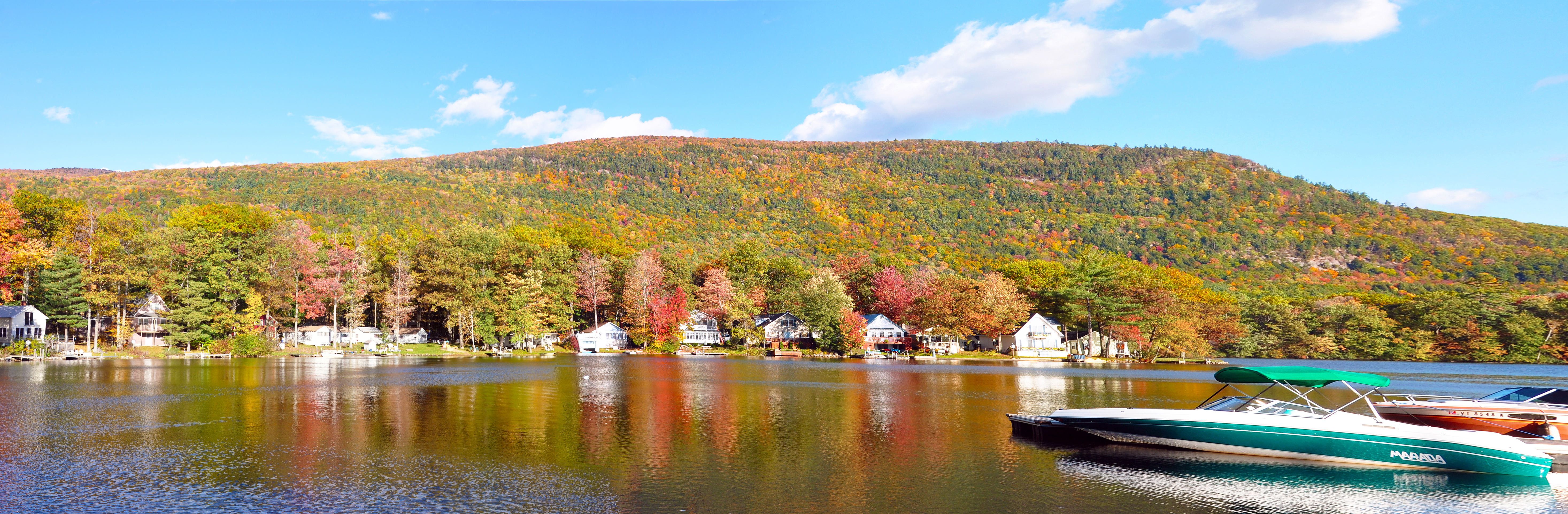 Vermont fall foliage panorama waters 2010